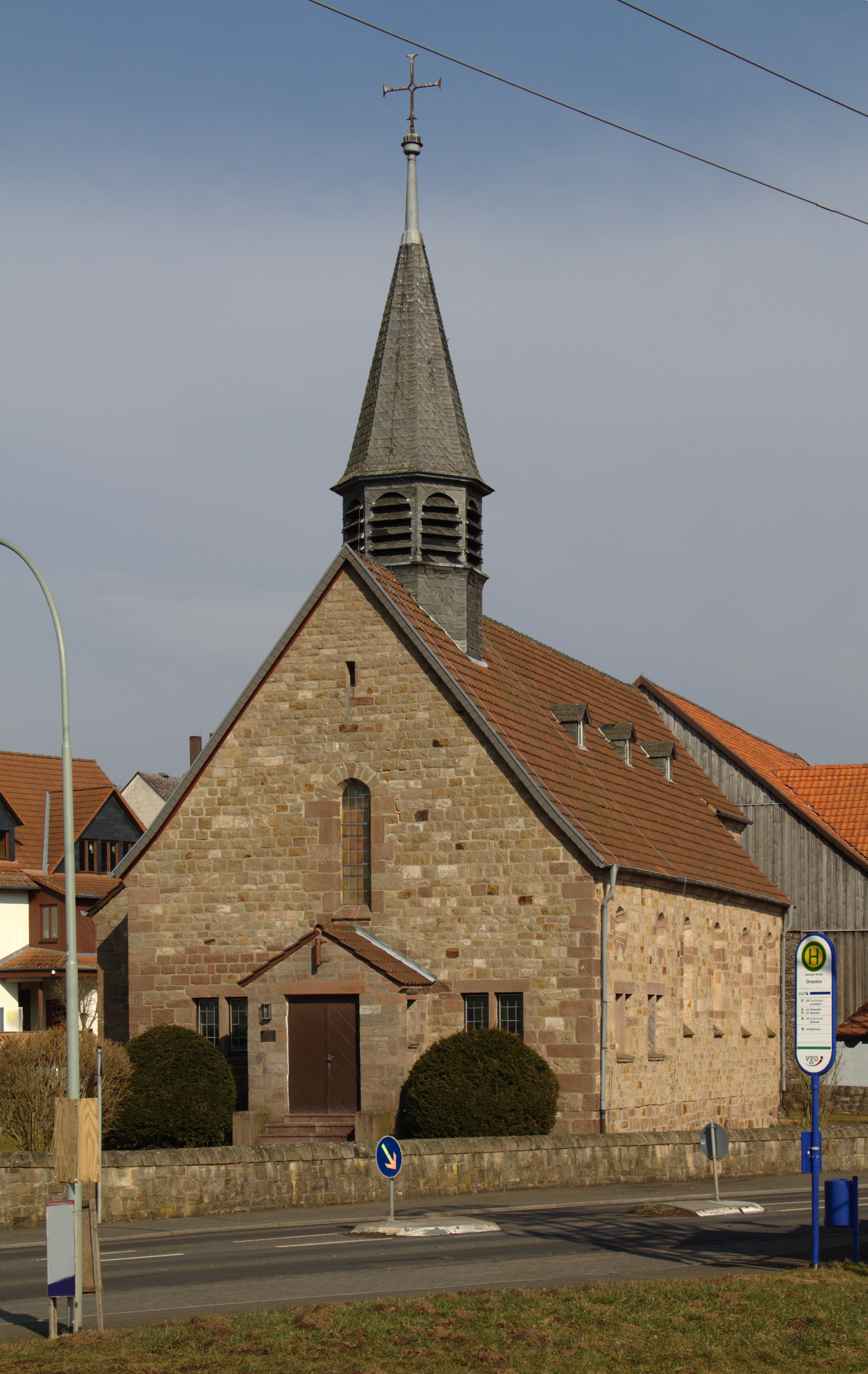 Protestant Church in Rixfeld, Herbstein, Hesse, Germany